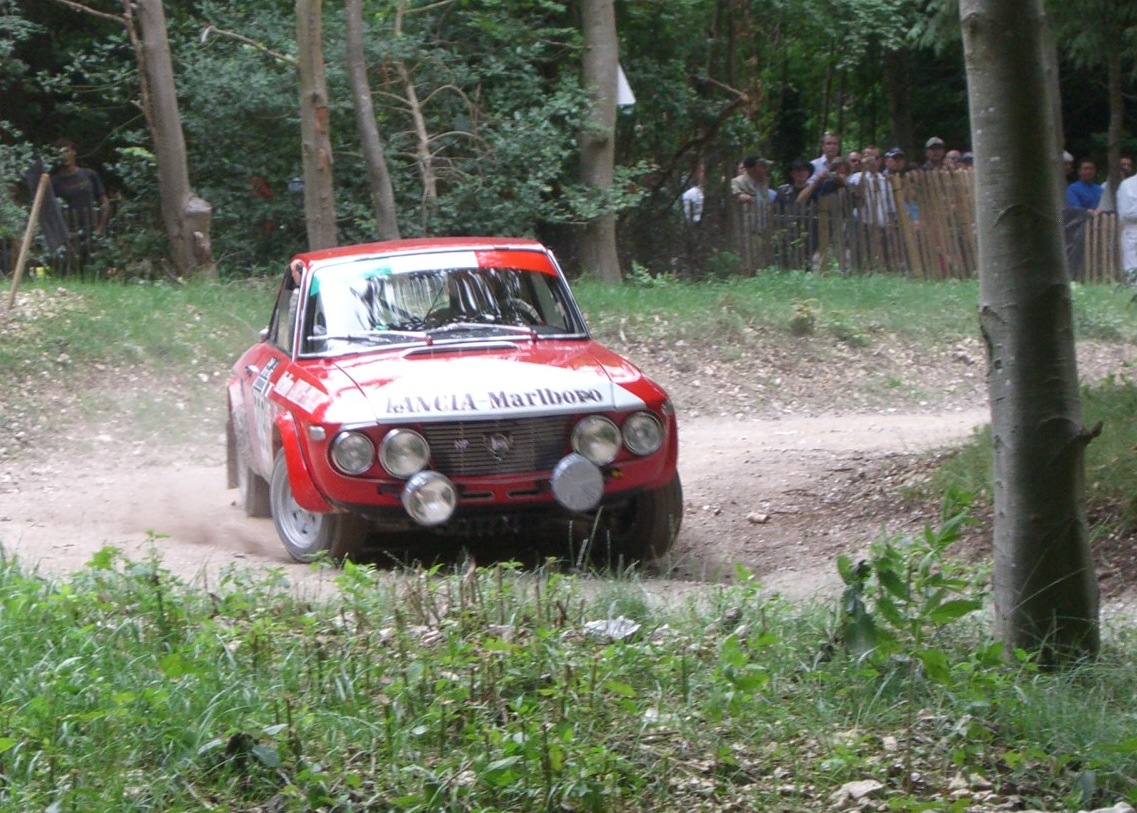 Lancia Fulvia HF at Goodwood Festiwal of Speed.